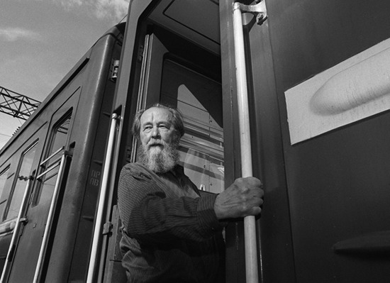 Russian writer and Nobel prize winner Aleksandr Solzhenitsyn looks out from a train, in Vladivostok, summer 1994, before departing on a journey across Russia. Solzhenitsyn returned to Russia after nearly 20 years in exile. Photo by Mikhail Evstafiev